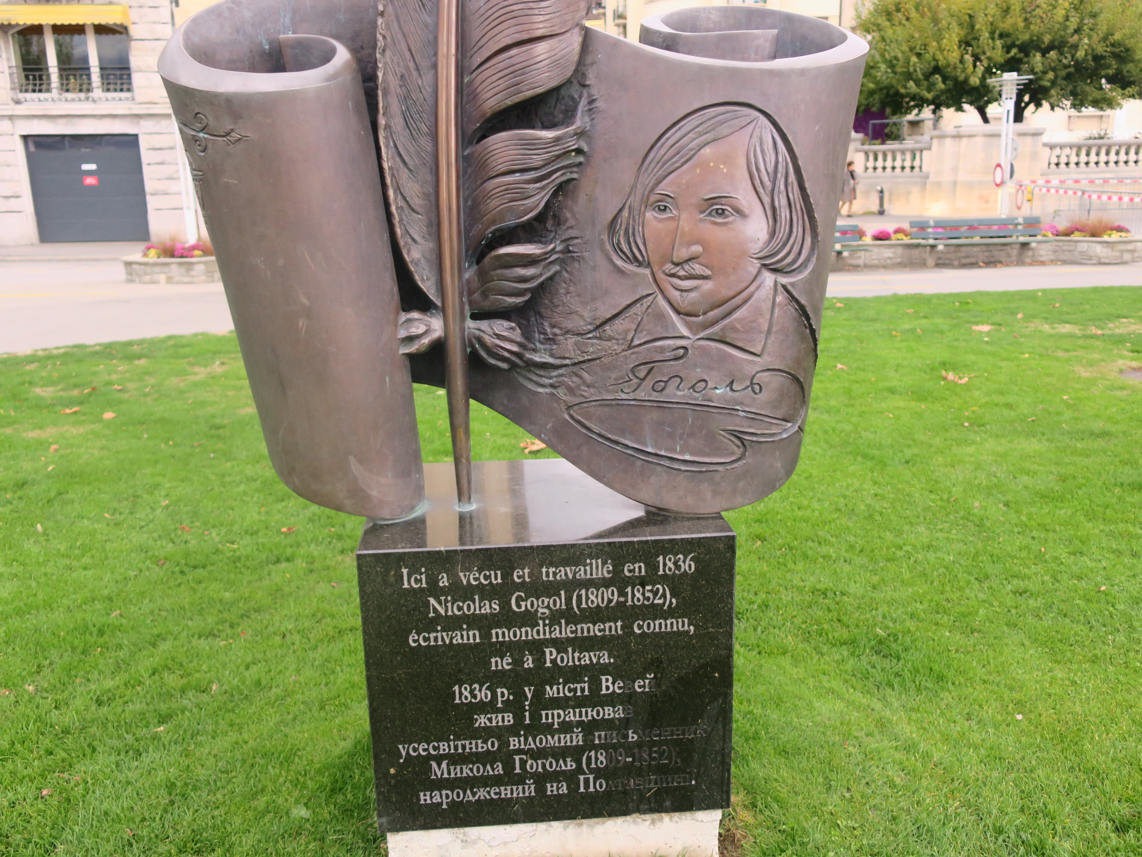 Here lived and worked in 1836 Nicolas Gogol (1809-1852), the world famous writer born in Poltova (Ukraine) and died in Moscow. Monument erected facing the lake Geneva in Vevey.